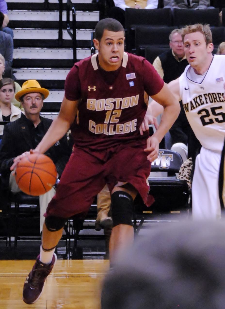 Ryan Anderson cuts across the paint